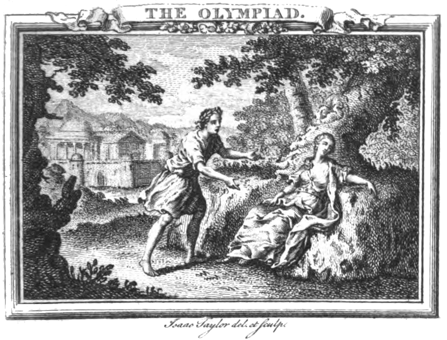 Metastasio - Olympiad - Hoole Vol.1 - London 1767